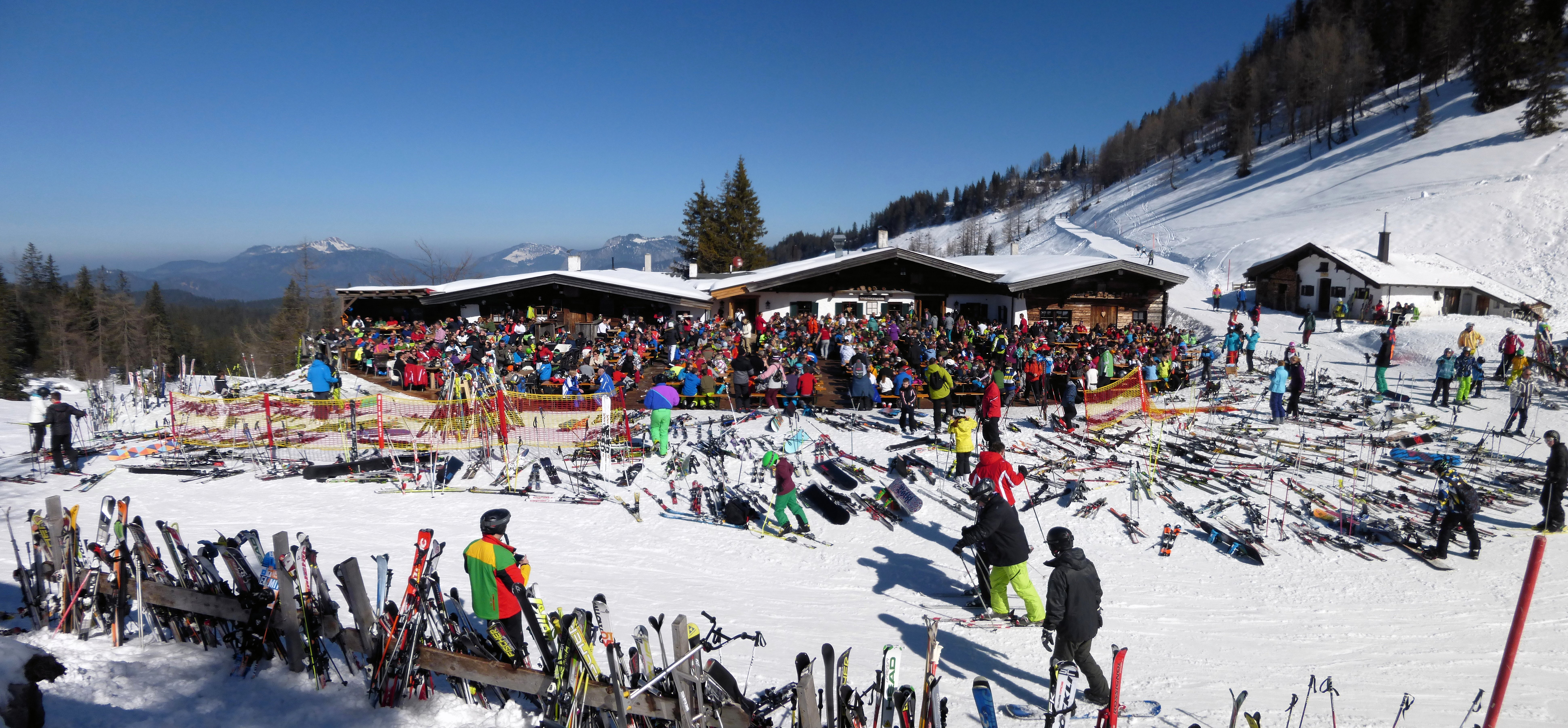 “Stallenalm“ ski hut, Waidring.